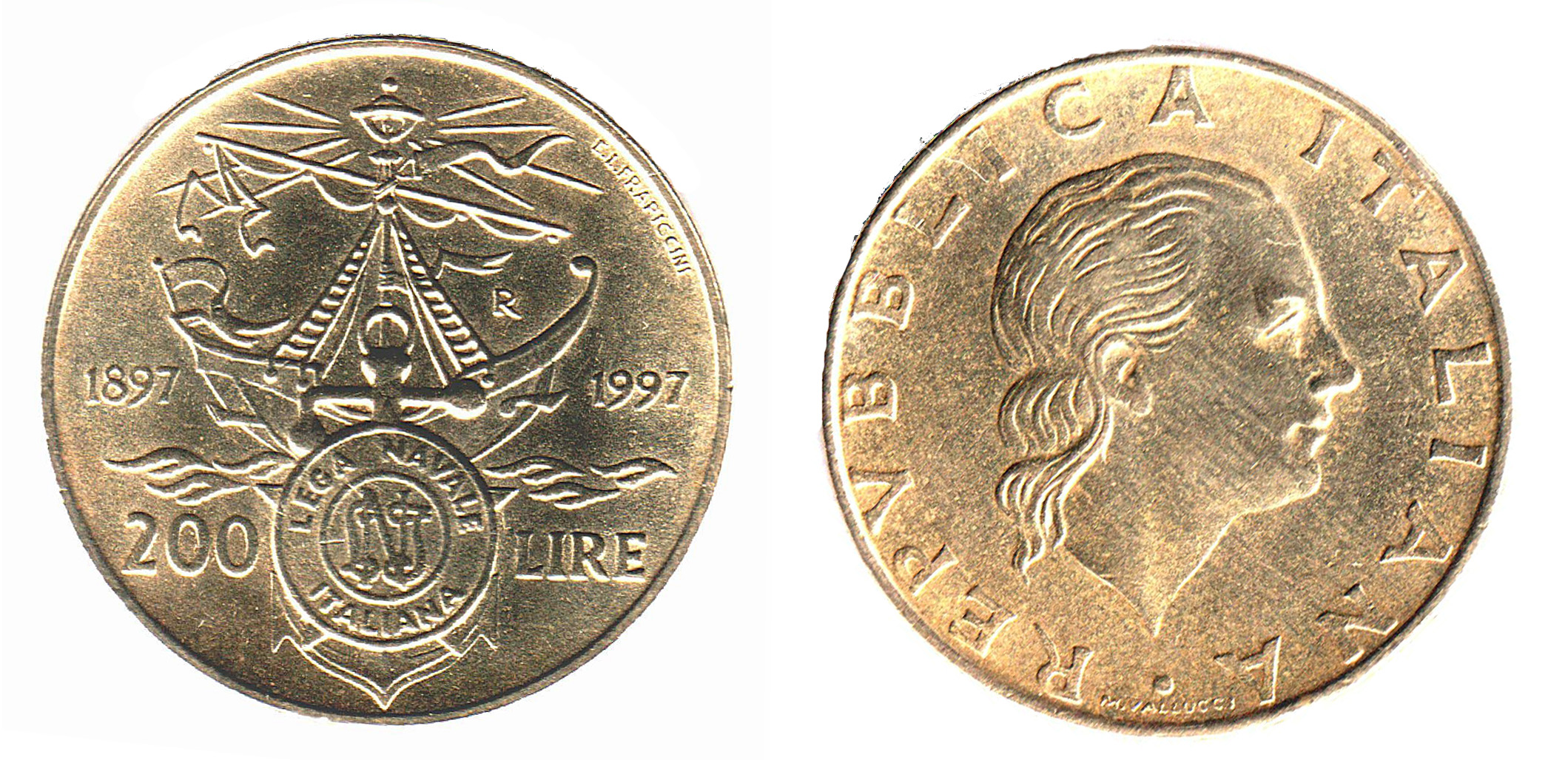 200 lire lega navale